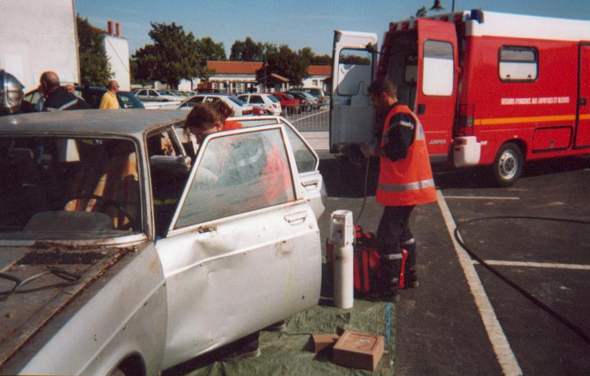 Demonstration of vehicle extrication by hte firefighters of La Rochelle and Sainte-Soulle (Charente-Maritime); the "squirel" — firefighter from the ambulance team that stays inside with the casualty — holds the head, another ambulance team member puts the cervical collar, the third one prepares the oxygen; the blocks on the ground are similar to the ones used to prevent the movement of the suspensions; as it is a demonstration, the position of the ambulance does not conform to the normal procedure; Sainte-Soulle (Charente-Maritime)